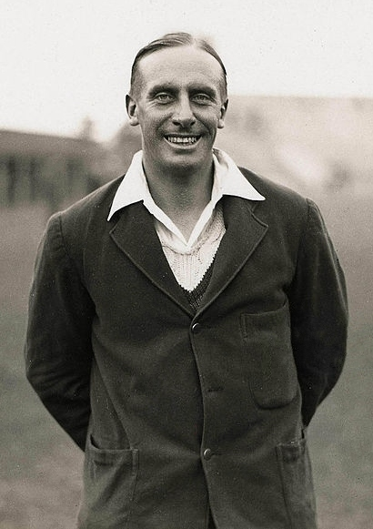 A picture of AER (Arthur Edward Robert) Gilligan, the Cambridge University, Surrey, Sussex and England right-arm fast bowler, steady right-handed batsman, and great fielder, seen here at the Scarborough Cricket Festival.